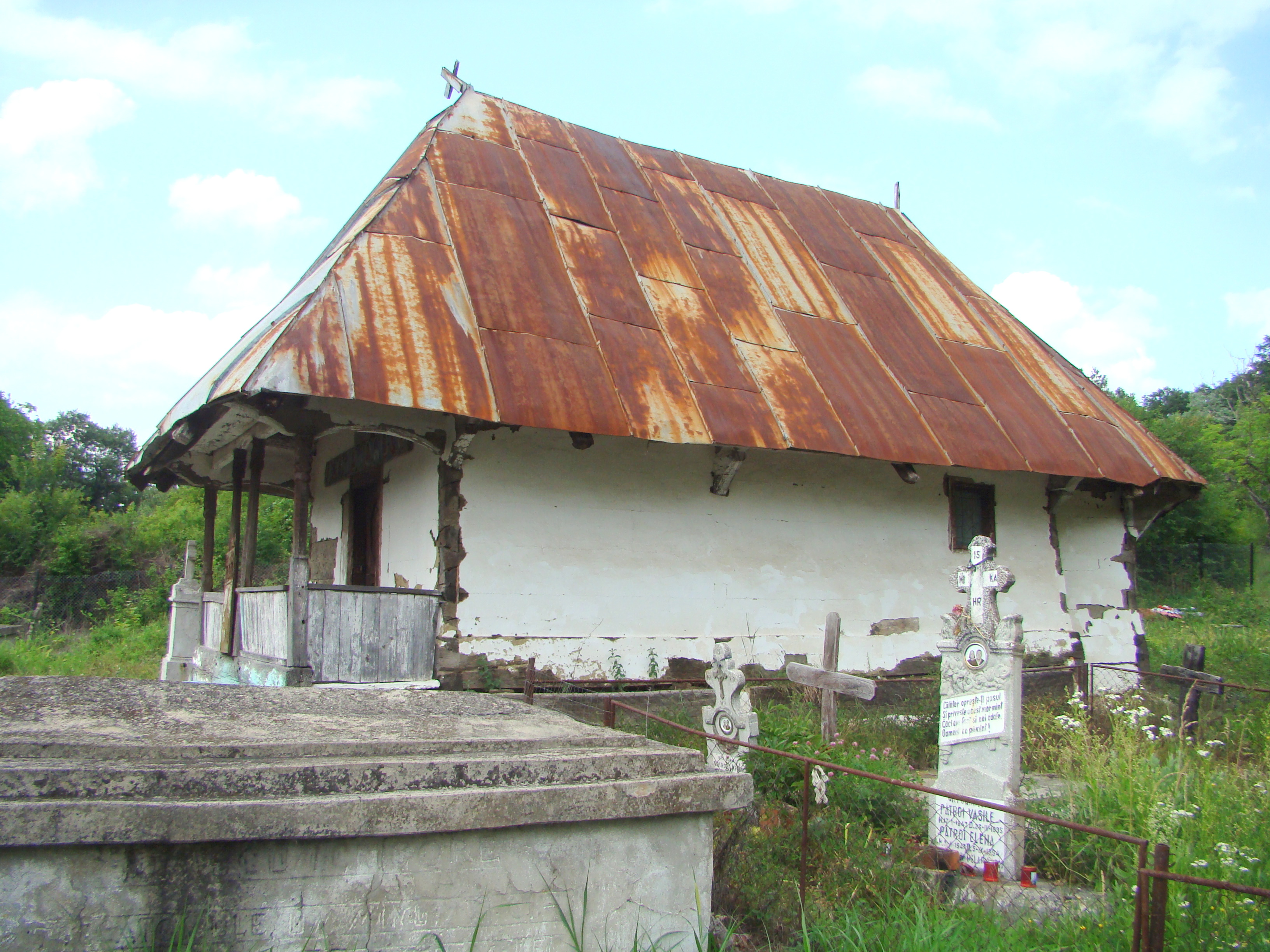 Wooden church in Doseni, Gorj county, Romania